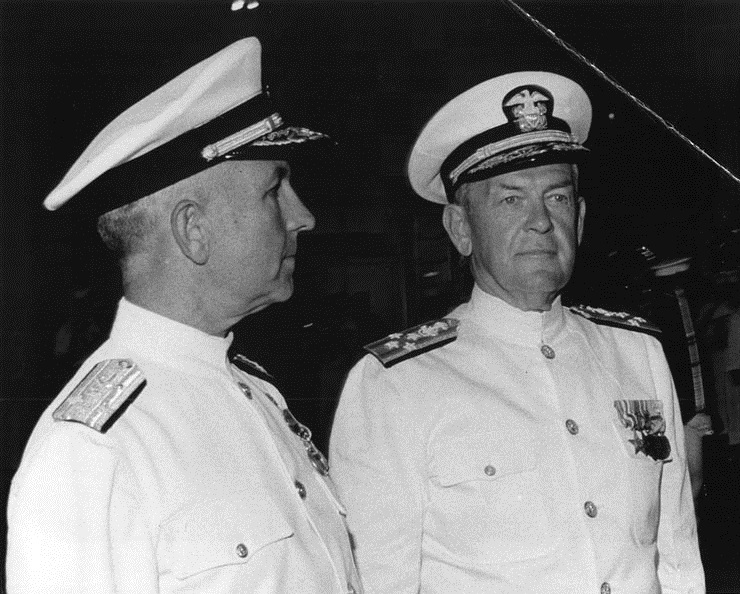 Admiral Thomas H. Moorer, USN, Chief of Naval Operations (Designate), at left with Admiral Ephraim P. Holmes on board USS Randolph, during change of command ceremonies at Norfolk, Virginia, 17 June 1967. Admiral Holmes relieved Admiral Moorer as Commander in Chief of the 230,000-man Atlantic Fleet and the unified Atlantic Command. In a separate ceremony, Holmes also took Moorer's NATO duty as Supreme Allied Commander. Admiral Moorer, the first officer ever to command both the Pacific and Atlantic Fleets, goes to Washington, D.C., to take the Navy's number one job, Chief of Naval Operations. Admiral Holmes comes to the Atlantic Fleet from duty as Deputy Chief of Naval Operations for Program Planning.